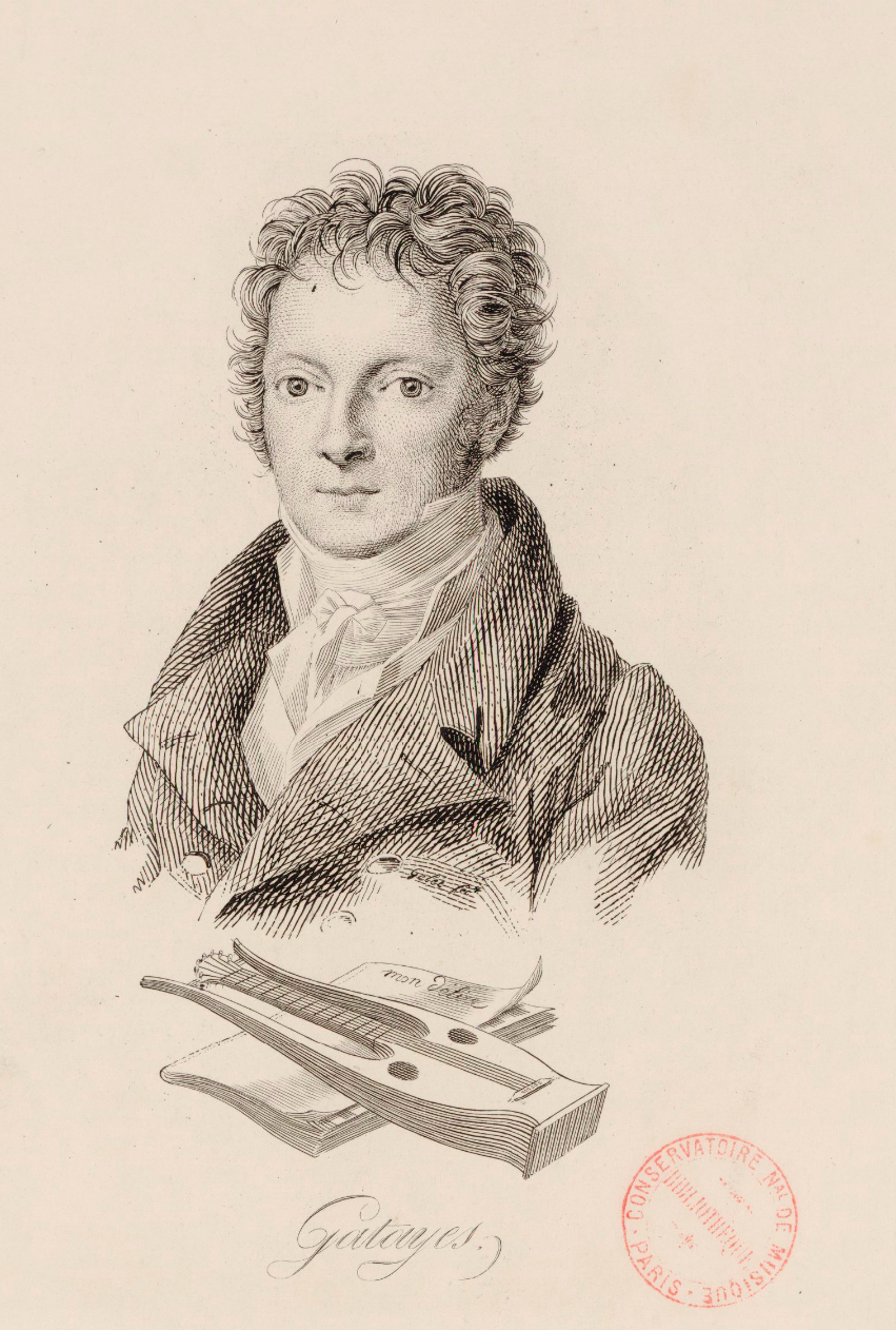 Gatayes, engraving, dim. 21,5 x 14 cm.